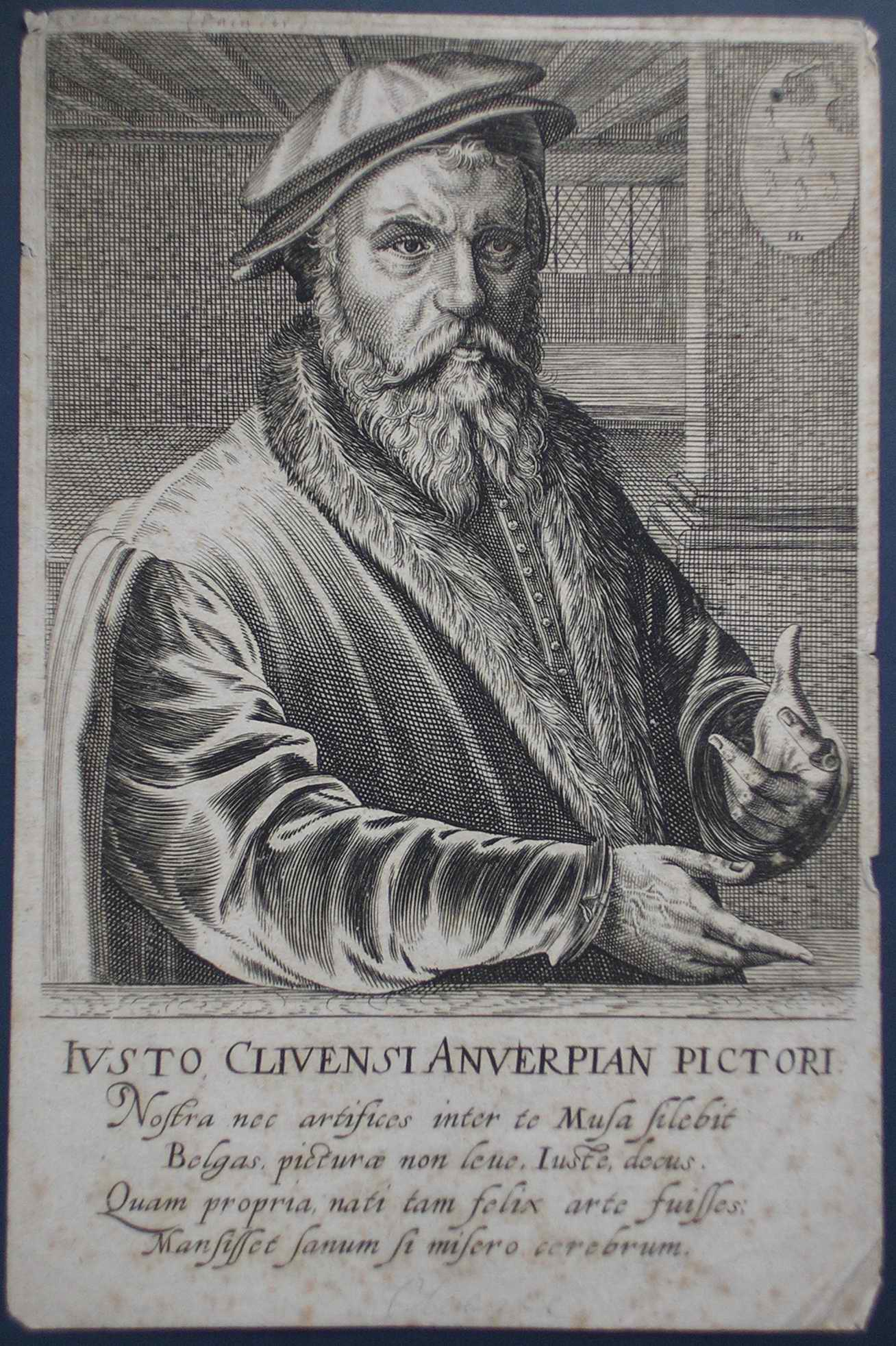 Portrait of the painter Joos van Cleef (van Cleve), copperplate